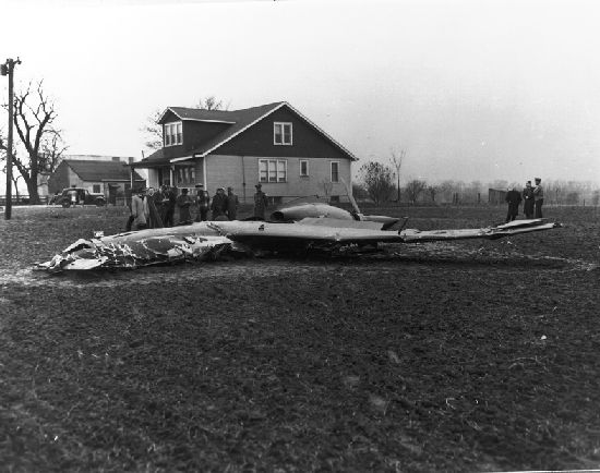 The first prototype Curtiss XP-55 "Ascender" (s/n 42-78845) following a test-flight accident on 15 November 1943. Test pilot J. Harvey Gray, undertaking stall testing, had the aircraft fall into an unrecoverable inverted flat spin and bailed out.